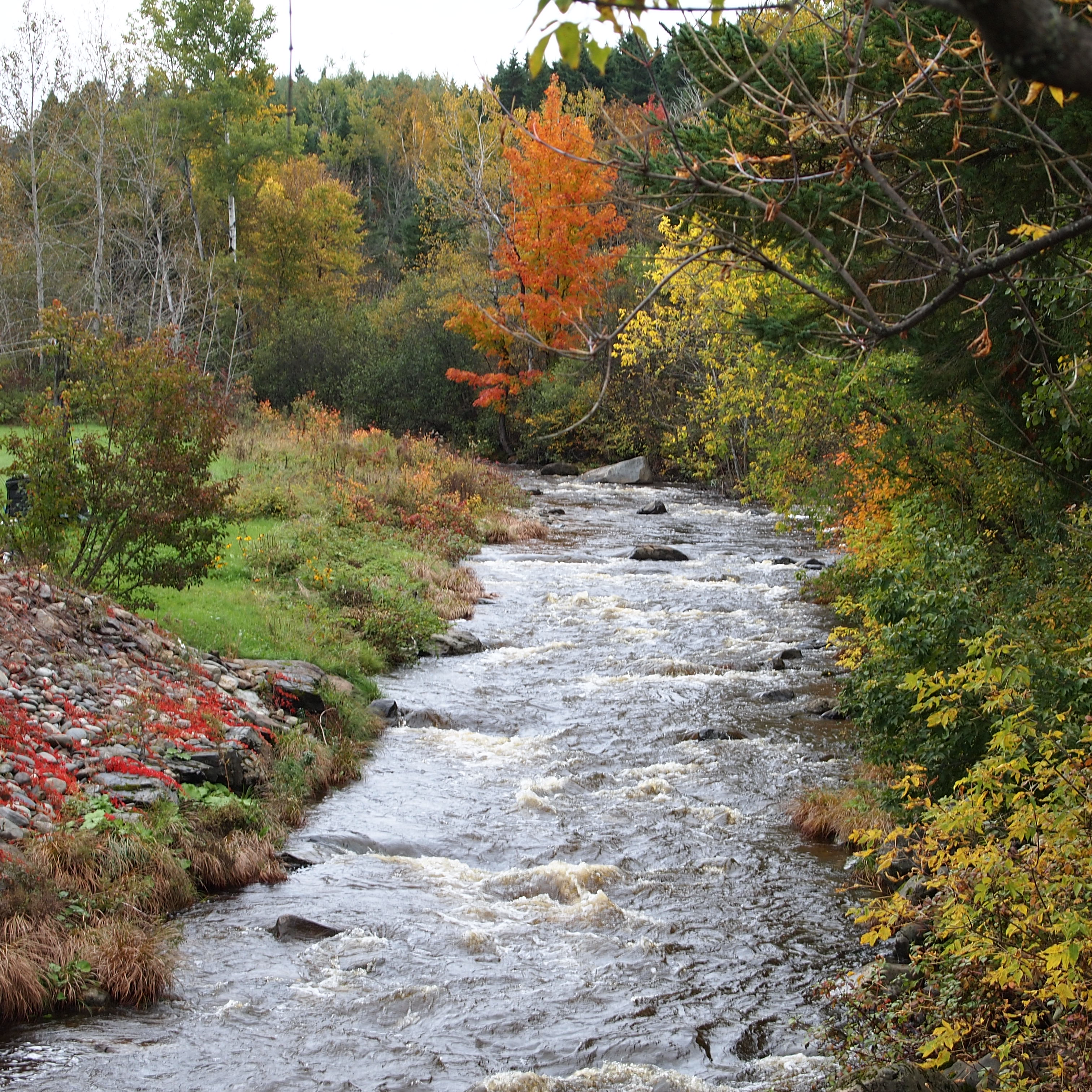 This little stream where gold was found in Beauce Canada